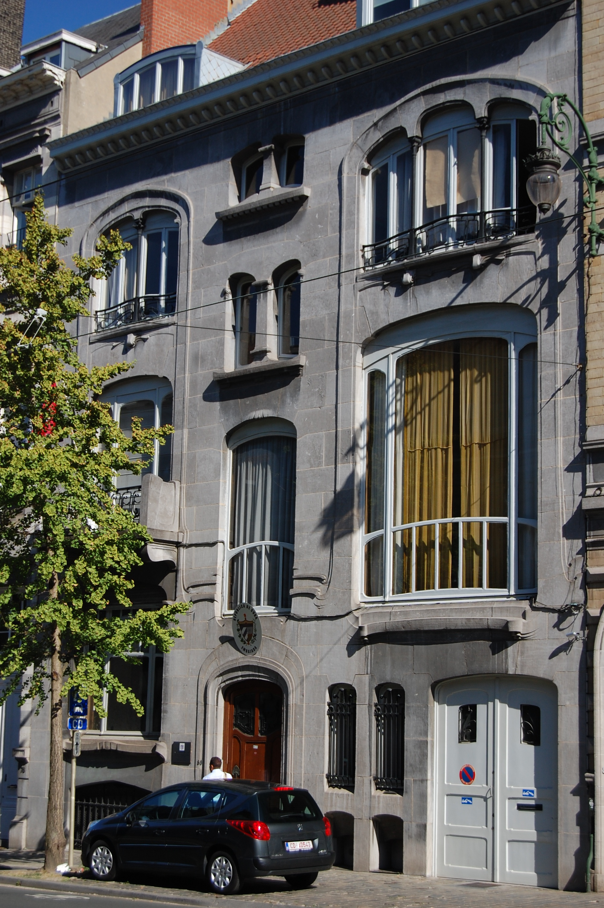 Avenue Brugmann, 80, in Forest in Belgium. This building was designed by the architect Victor Horta in 1907